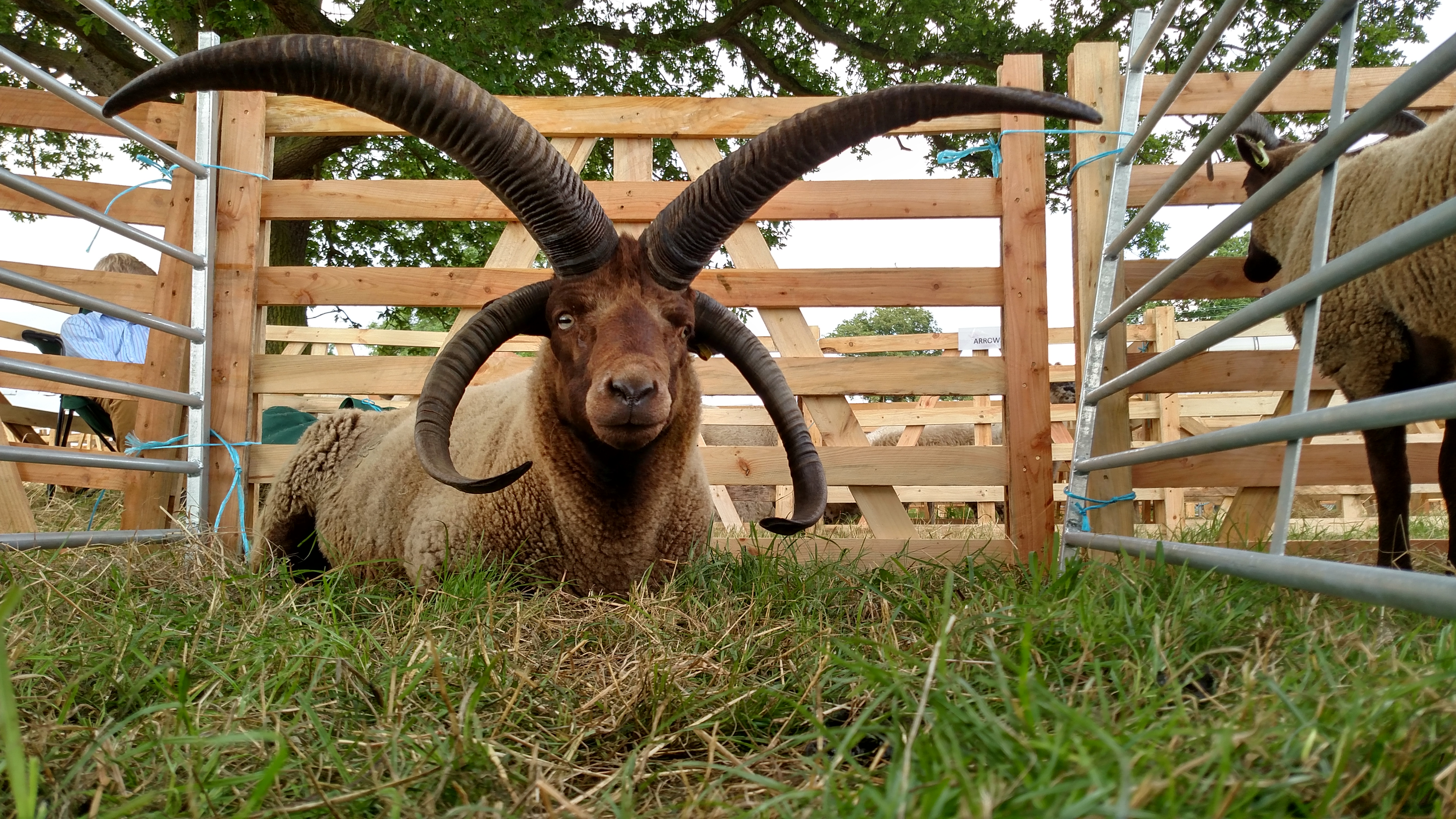 A Manx Loaghtan sheep at the Ryedale agricultural show near Kirkbymoorside in Yorkshire on July 25, 2017